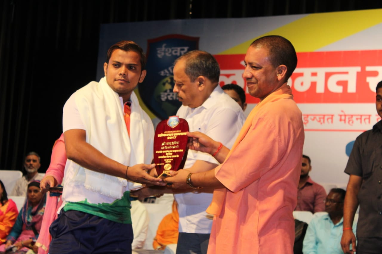 Abu Hubaida was awarded with the Lokmat Samman on 10 June 2017 from the Uttar Pradesh Honorable Chief Minister Shri Yogi Adityanath.